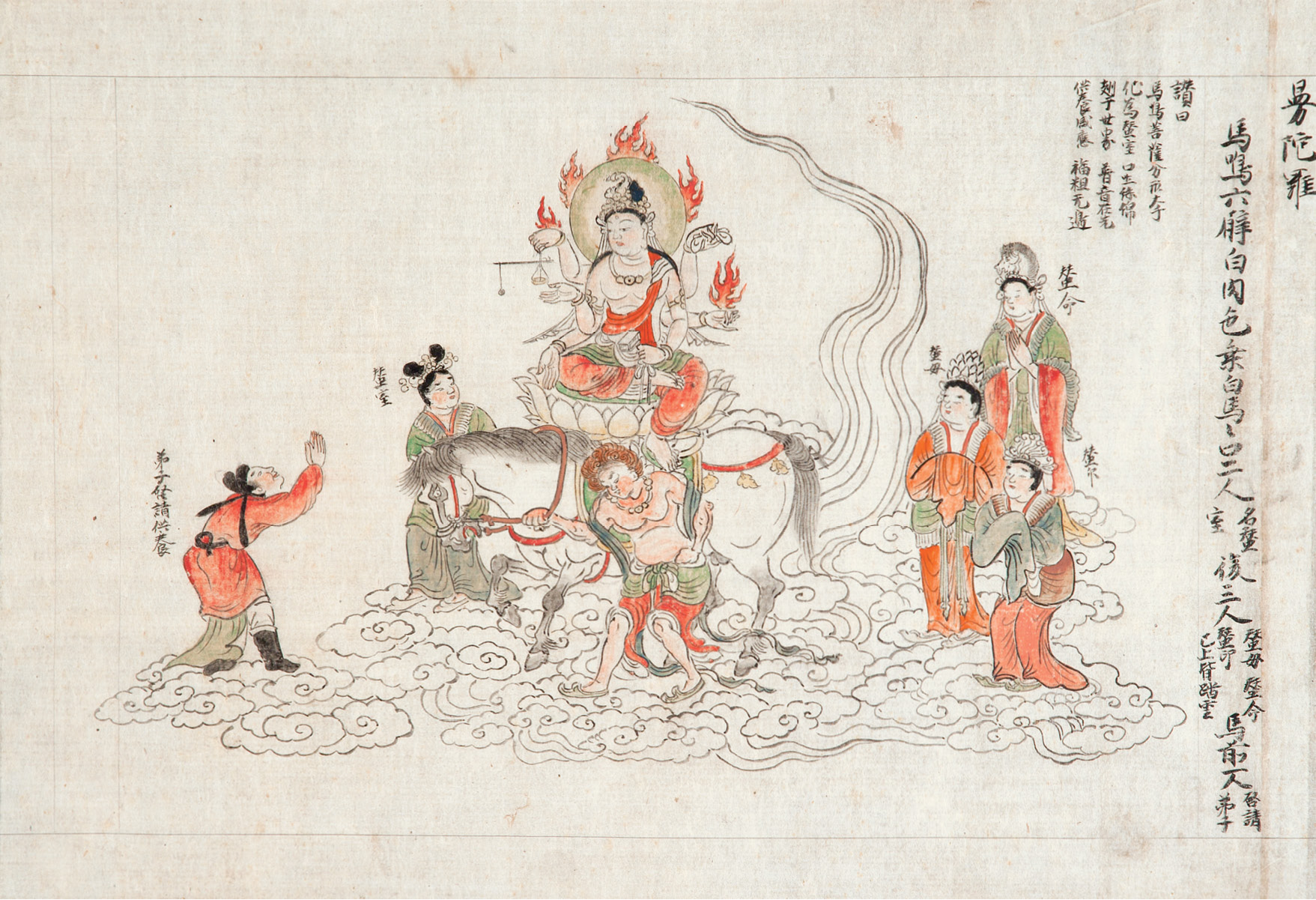 "Mandala / Memyō Bosatsu, with six arms and in pale flesh color, rides on a white horse. Near the horse’s mouth are two figures: one of them named Sanshitsu. At the back are three figures: Sanbo, Sanmyō, and San’in, all stepping on clouds. In front of the horse is a worshipping disciple. / Eulogy: Memyō Bosatsu, incarnating himself in the cosmos, / turns into a silkworm that spits out silk flosses. / Flying around the world, it is heralded by a suffusion of music, / responsive to people’s offerings, it brings them boundless good fortune." [Figures, from right to left]: "Sanmyō, San’in, Sanbo, Sanshitsu; Worshipping disciple making an offering"